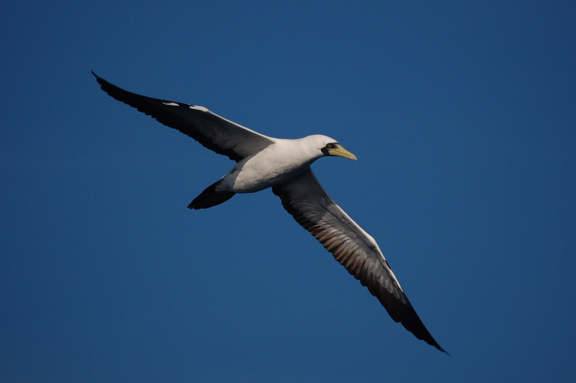 Masked booby.